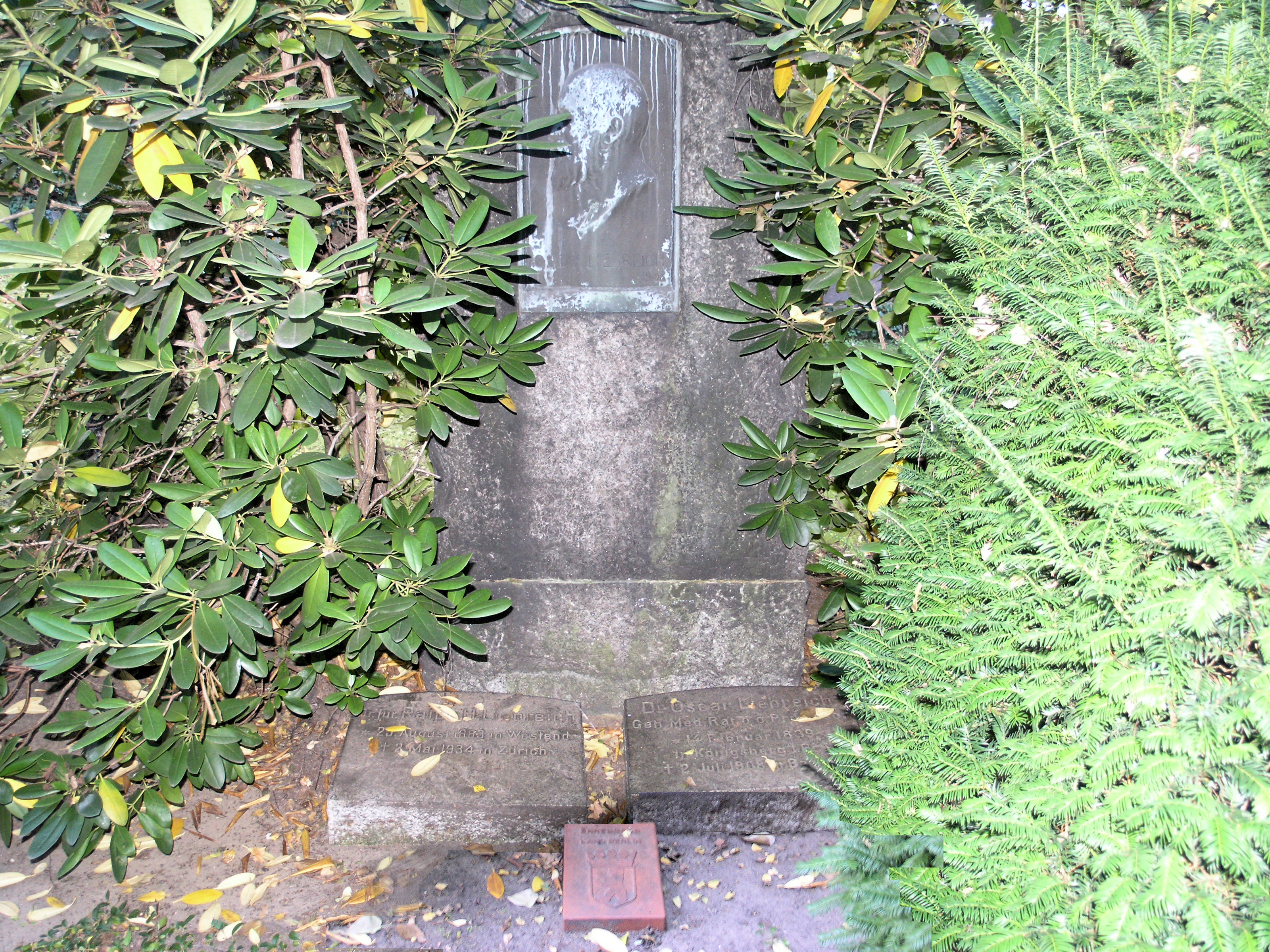 "Ehrengrab" (grave of honor), Oskar Liebreich, Fürstenbrunner Weg 69, Berlin-Westend, Germany Koordinate:52°31′32″N 13°16′44″E / 52.52556°N 13.27889°E